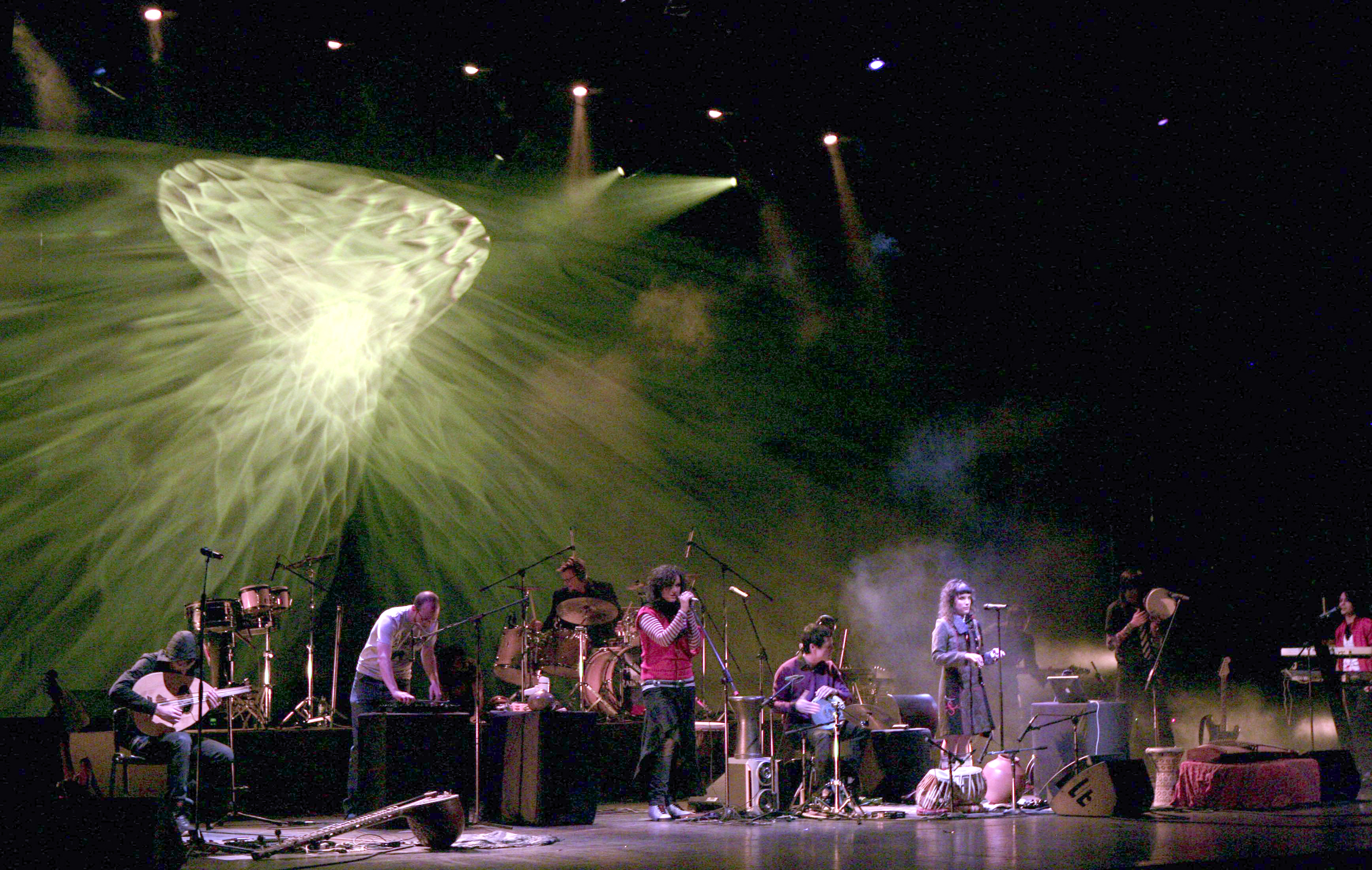 Our Concert in Teatro Diana in 28th. of febrary of 2009. Guadalajara Jalisco, México